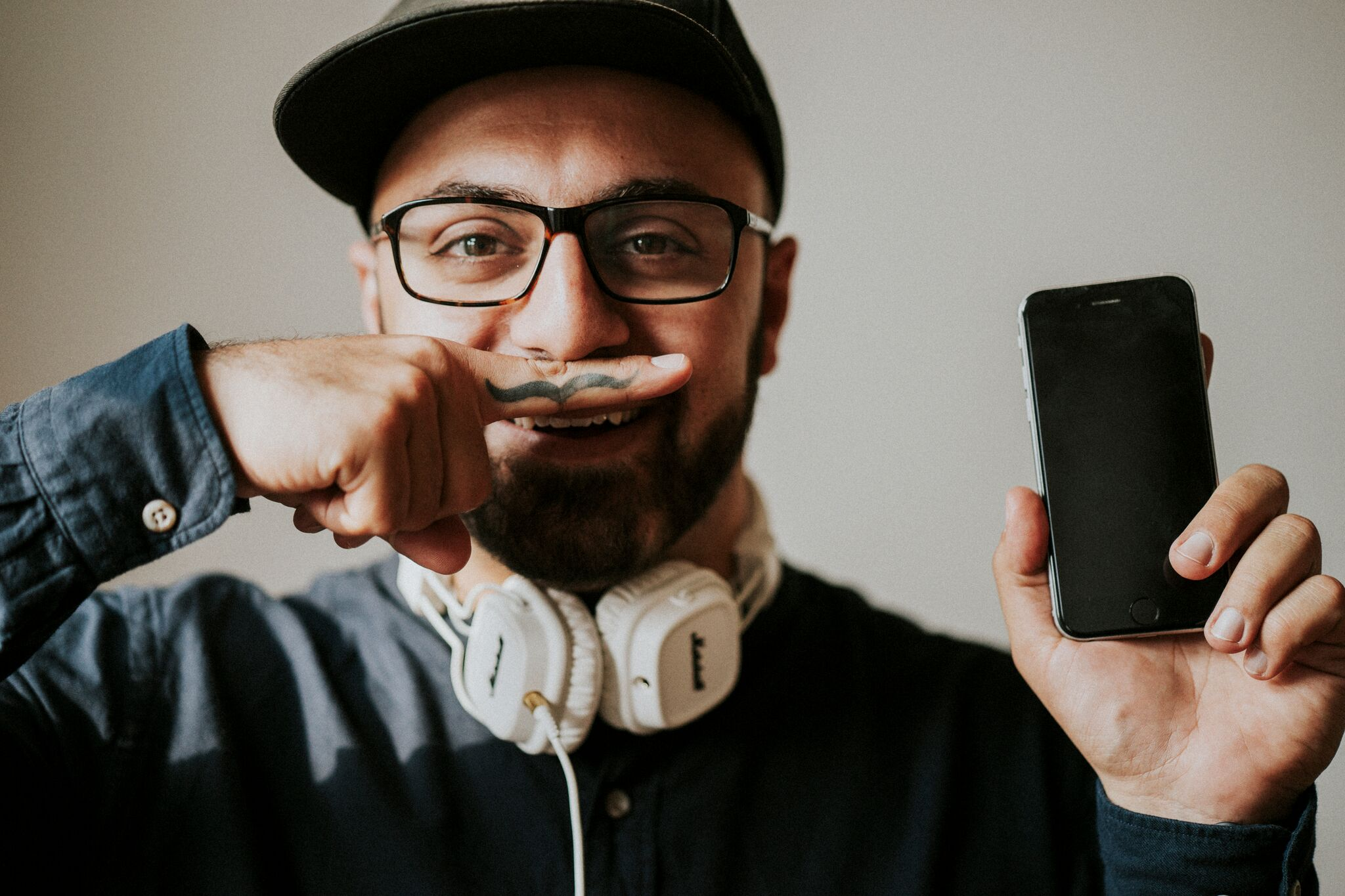 Portrait of Ali Mahlodji, moustache